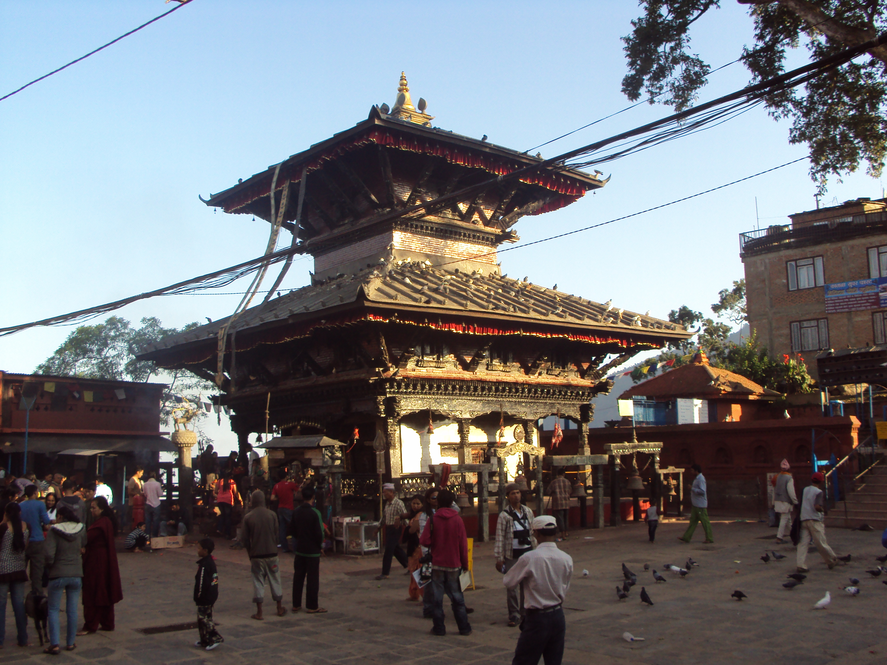 Manakamana Temple at Gorkha District Nepal